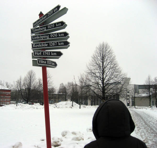 Friendship Park in Joensuu, Finland.